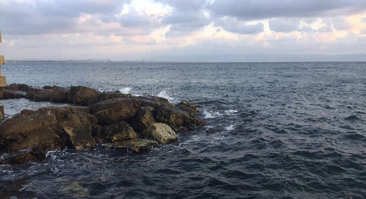 the mediterranean sea - Jaffa’s beach - Palestine